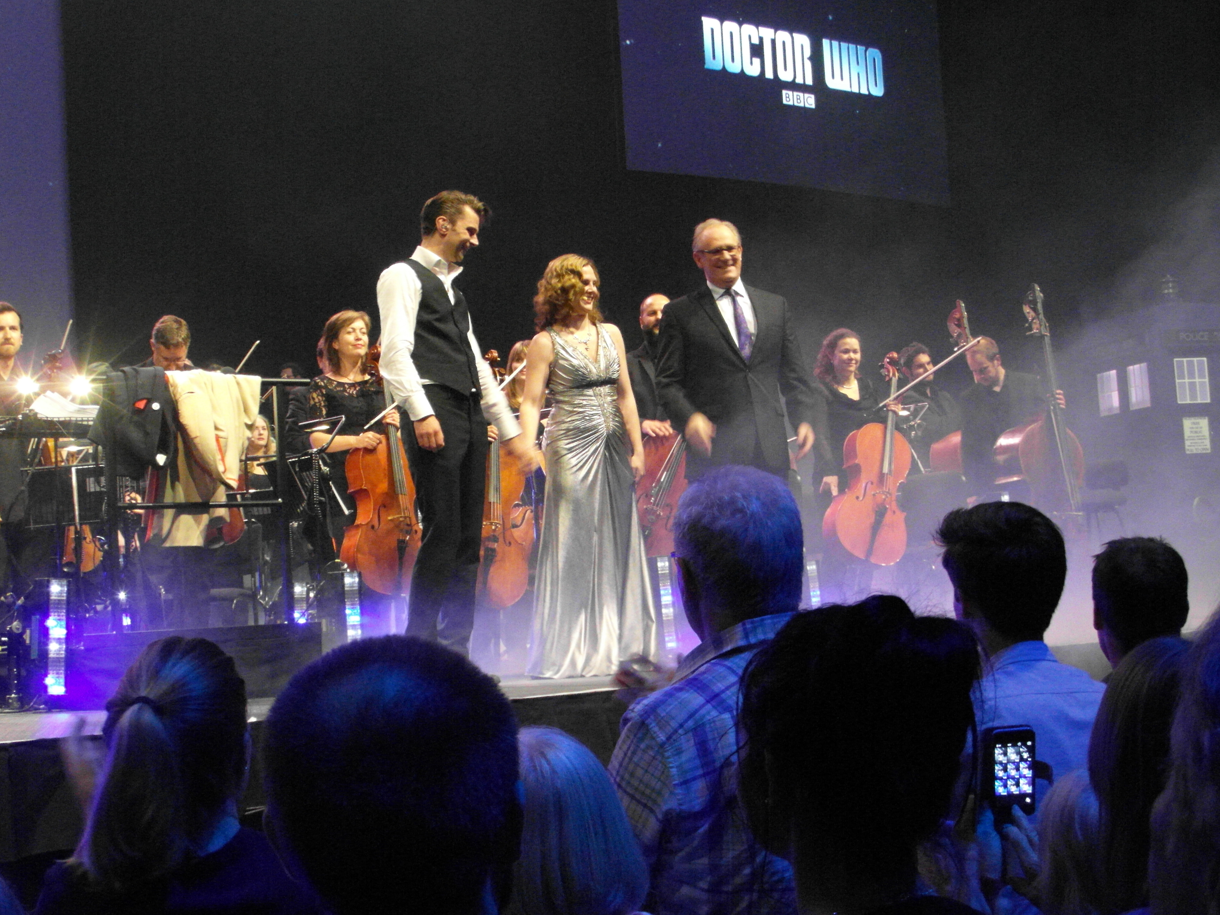 End of the show and everyone takes a bow! Doctor Who Symphonic Spectacular